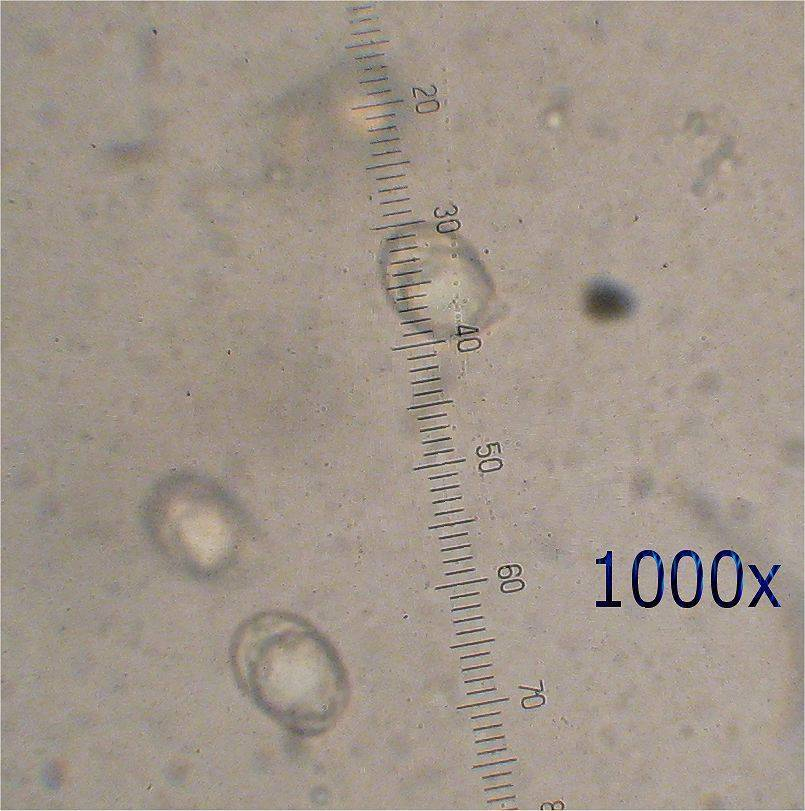 Amanita regalis (Fr. : Fr.) Michael Location: Södra Tresund, Vilhelmina, Lapland, Sweden For more information about this, see the observation page at Mushroom Observer.